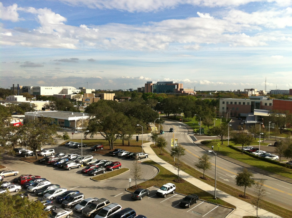 Overlooking the USF Tampa campus.